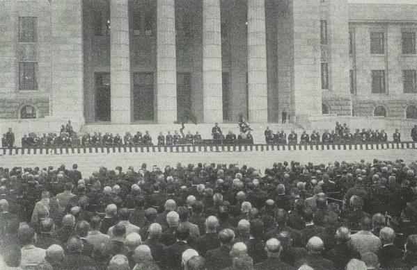 Japanese Diet Hall Dedication Ceremony (November 7, 1936)